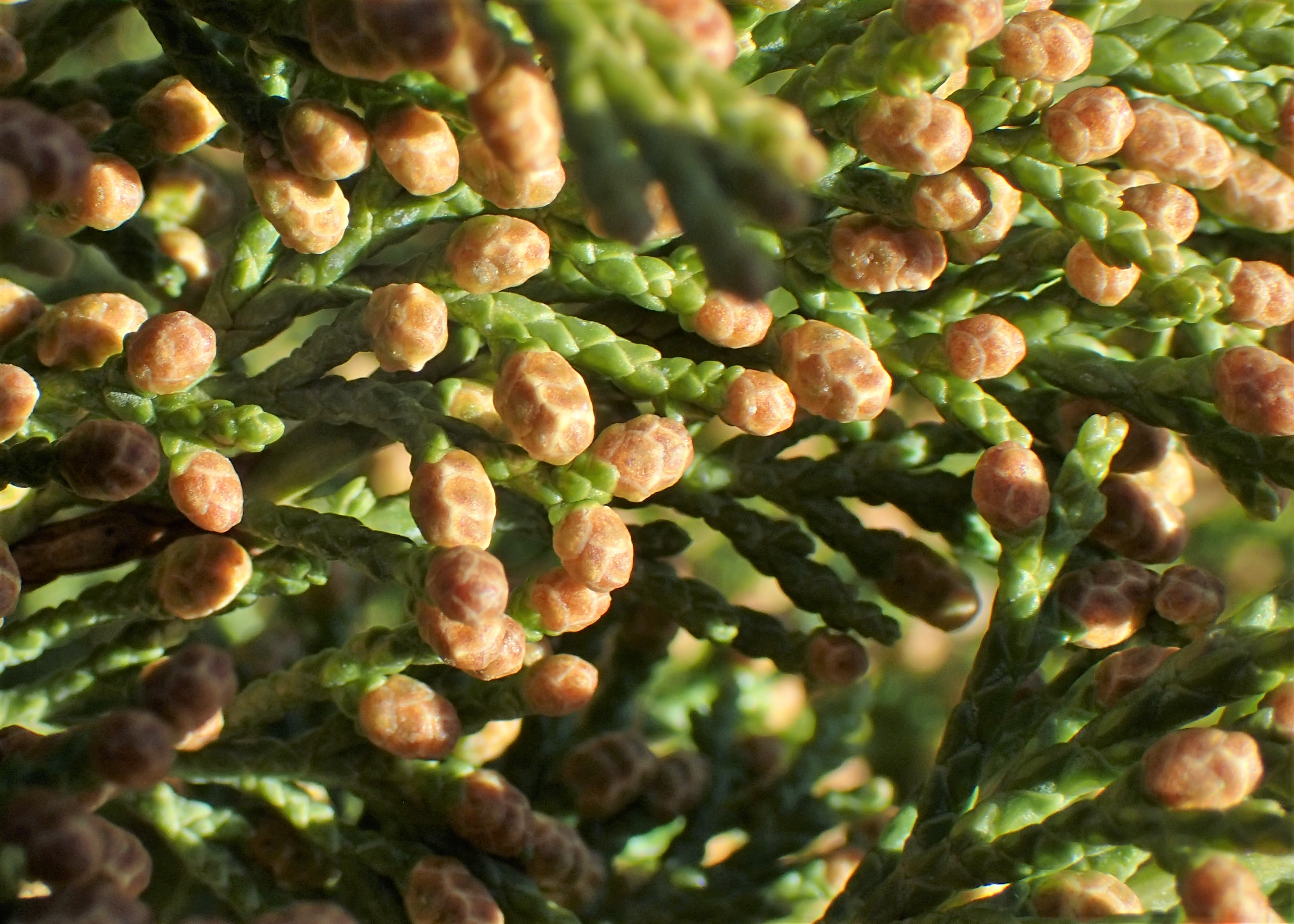 Juniperus sabina (cultivated) in the Botanischer Garten, Berlin-Dahlem